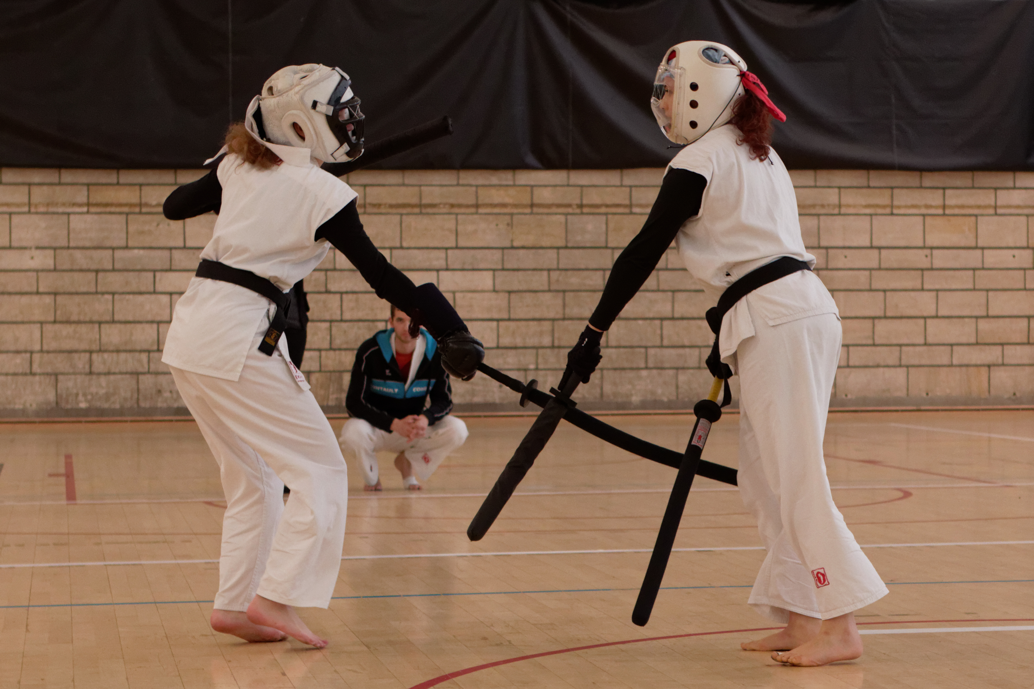 French Chanbara Championship, 12 April 2015.